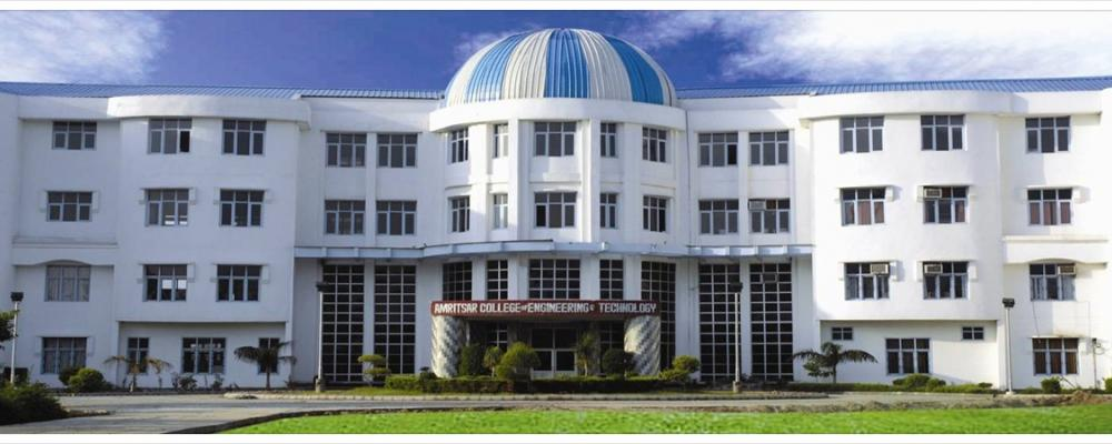 Amritsar College of Engineering and Technology